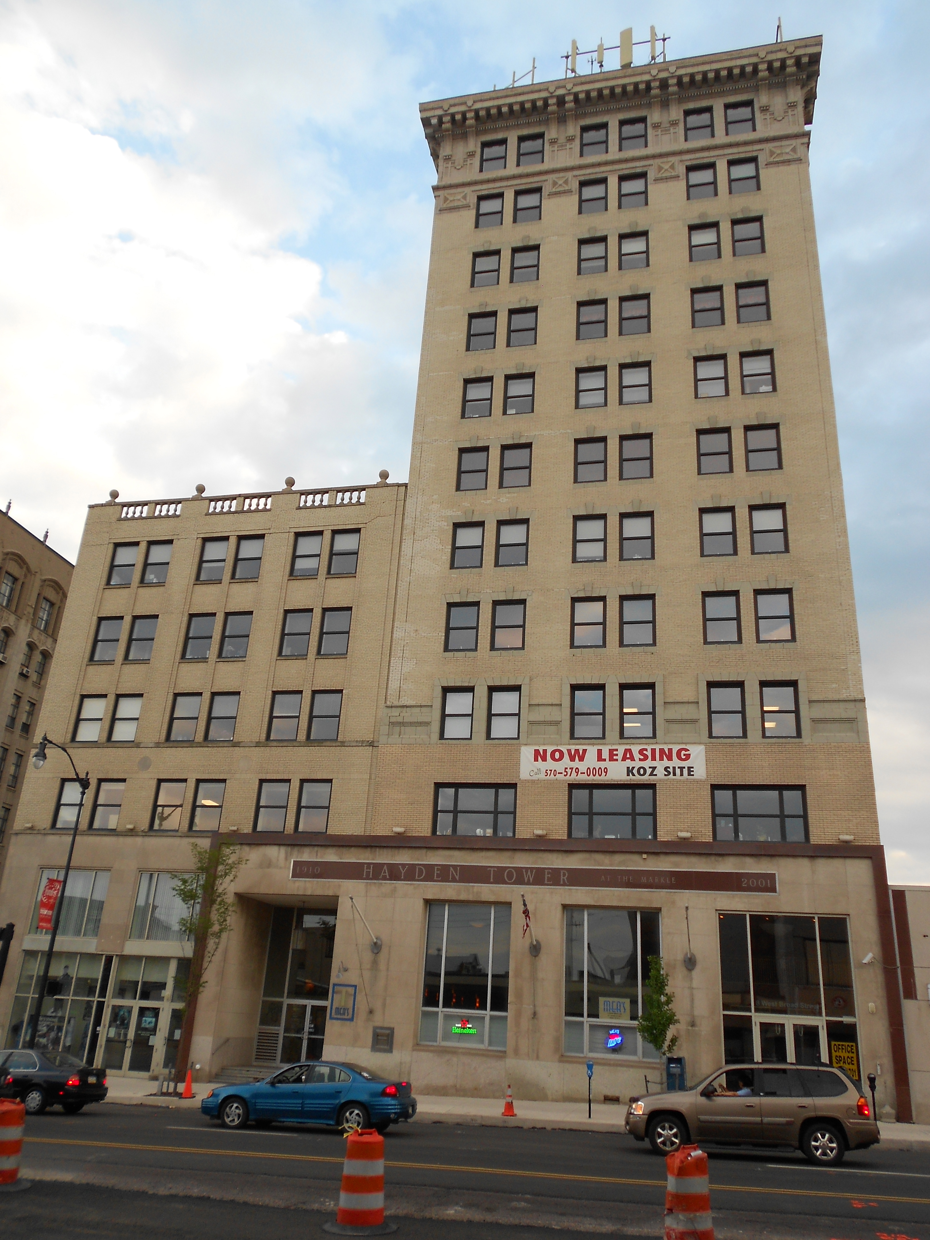 Markle Banking & Trust Company Building — at 8 West Broad Street, Hazleton, Luzerne County, Pennsylvania. On the NRHP since March 28, 1996